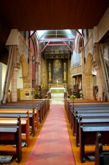 Cathedral of St John the Divine / Ard-eaglais Eòin an Diadhair St John's Cathedral is surrounded by town buildings and less well known than St Columba's which enjoys a prominent position on the waterfront. It was constructed between 1863 and 1968 and this interior view shows the unusual steel girders which support the central tower.